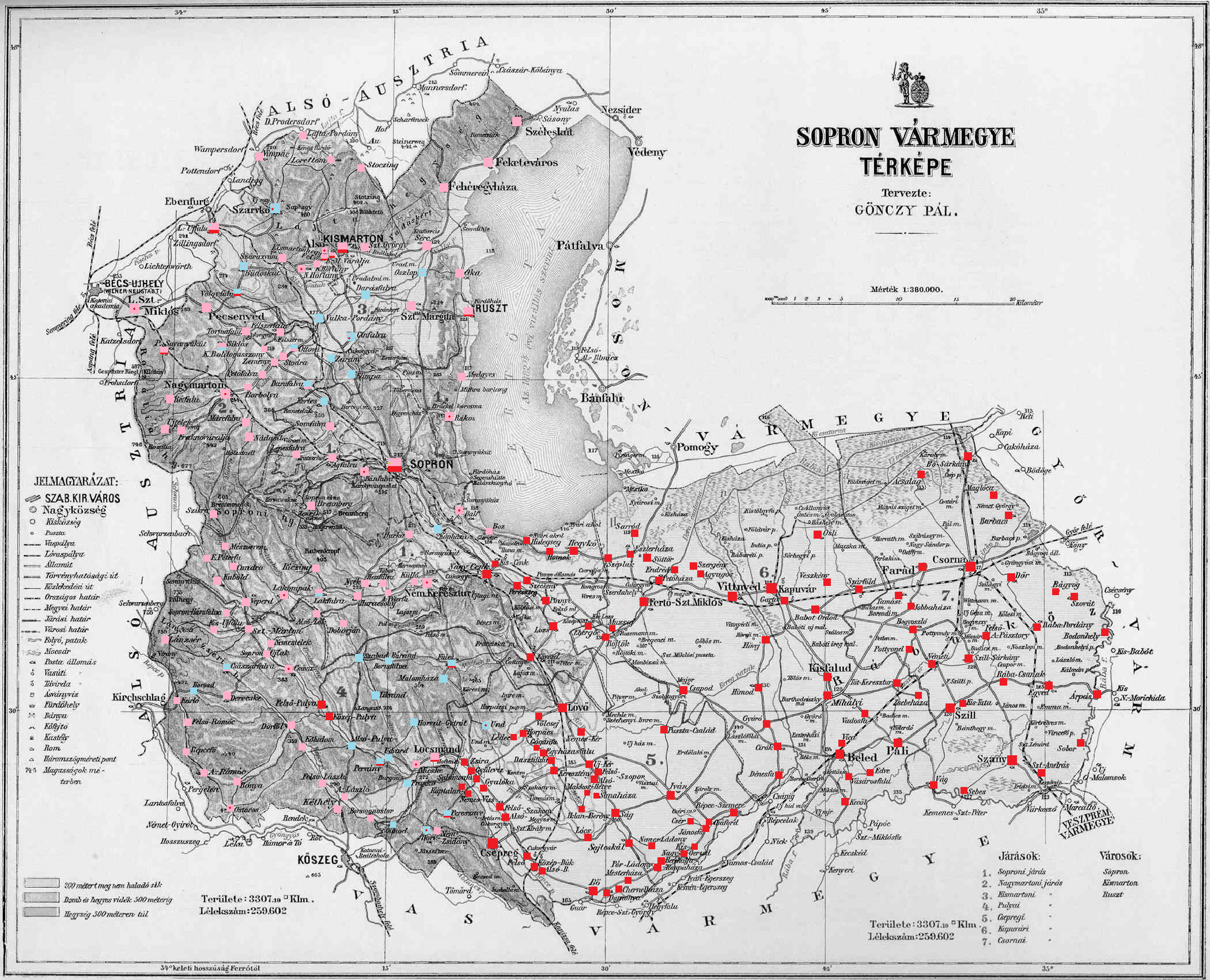 Ethnic map of the county (with data of the 1910 census). Key: red - Hungarians; pink - Germans; light blue - Croatians. Coloured dots in plain rectangles imply the presence of smaller minority populations (generally more than 100 people or 10%). Multicoloured rectangles imply cities and villages with multi-ethnic populations with the order of the stripes following the ethnic composition of the settlement.